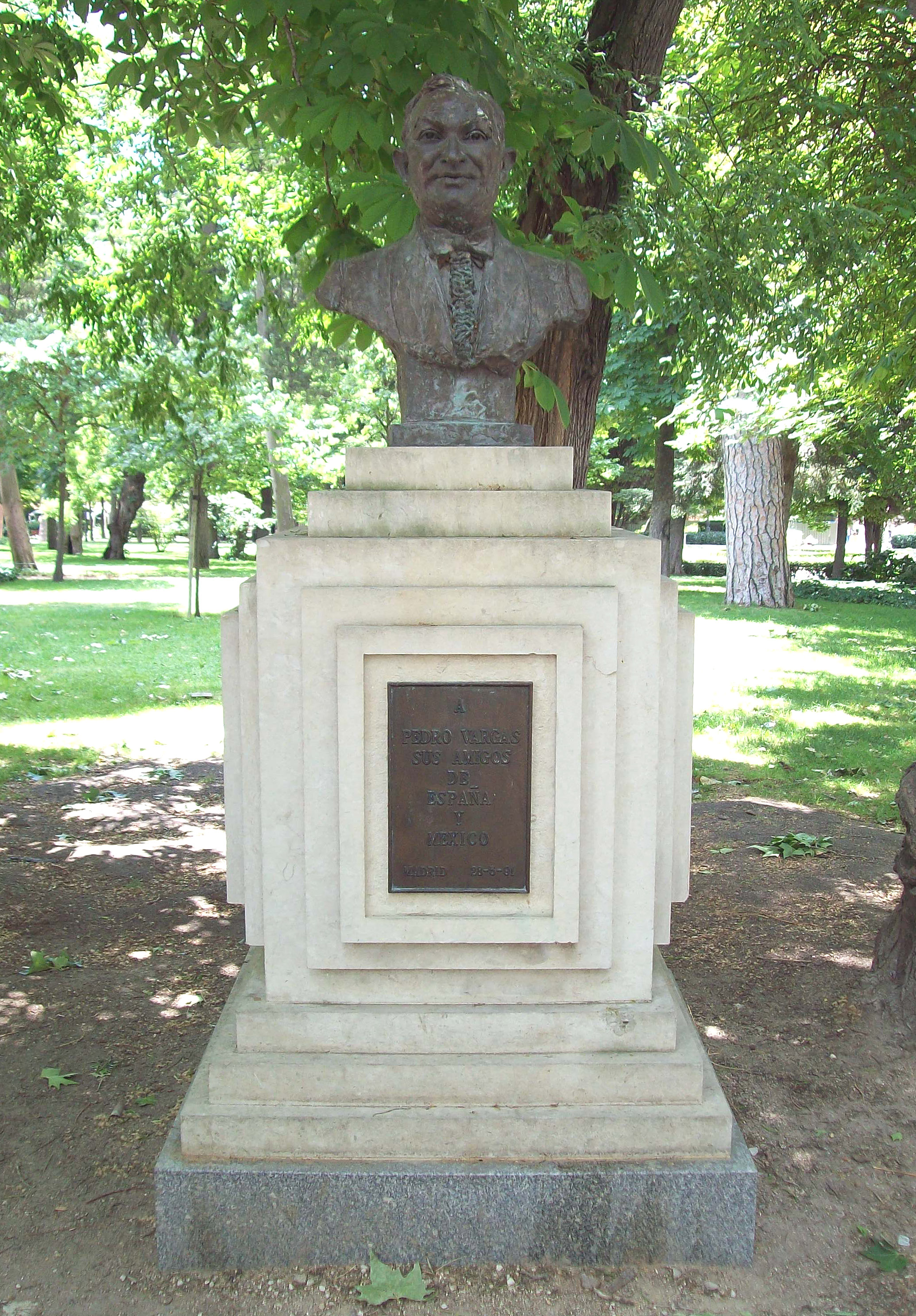 Monument to Pedro Vargas Mata (1906–1989) in the Retiro Park (Jardines del Buen Retiro) in Madrid (Spain). Made by sculptor Luis Antonio Sanguino (b. 1934) and inaugurated on March 28, 1991.